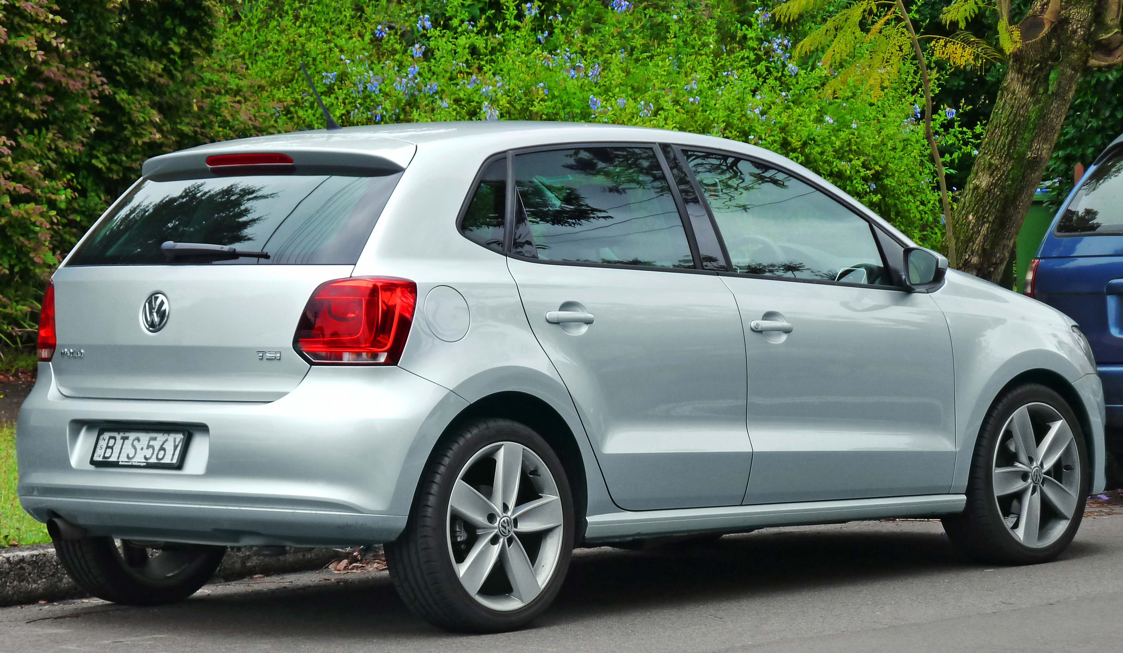 2010 Volkswagen Polo (6R) 77TSI Comfortline 5-door hatchback. Photographed in Gordon, New South Wales, Australia.